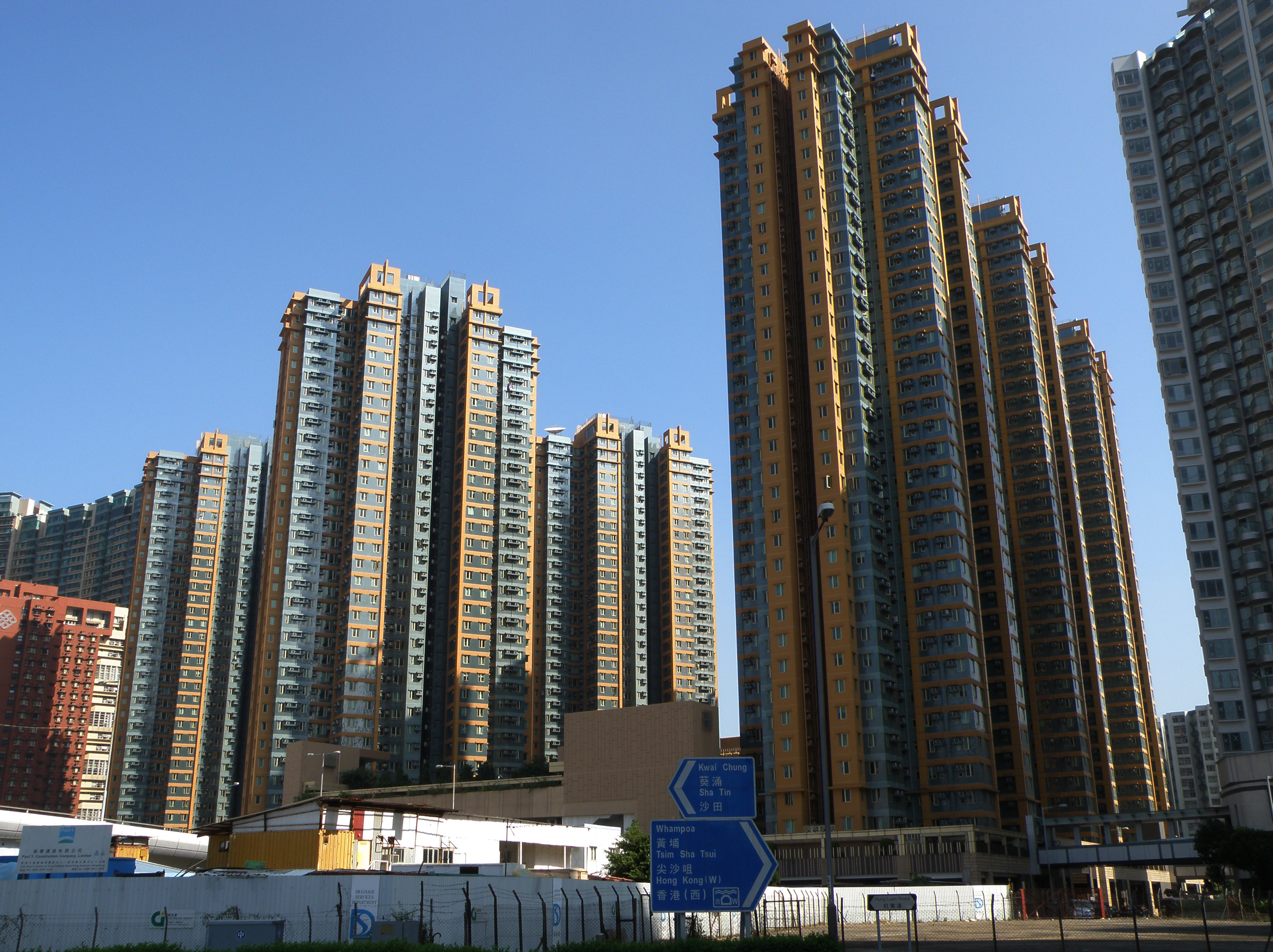 Harbour Place in Hung Hom, Hong Kong.